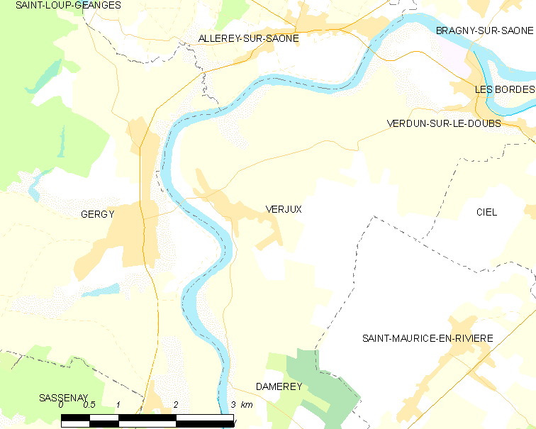 Map of French municipality